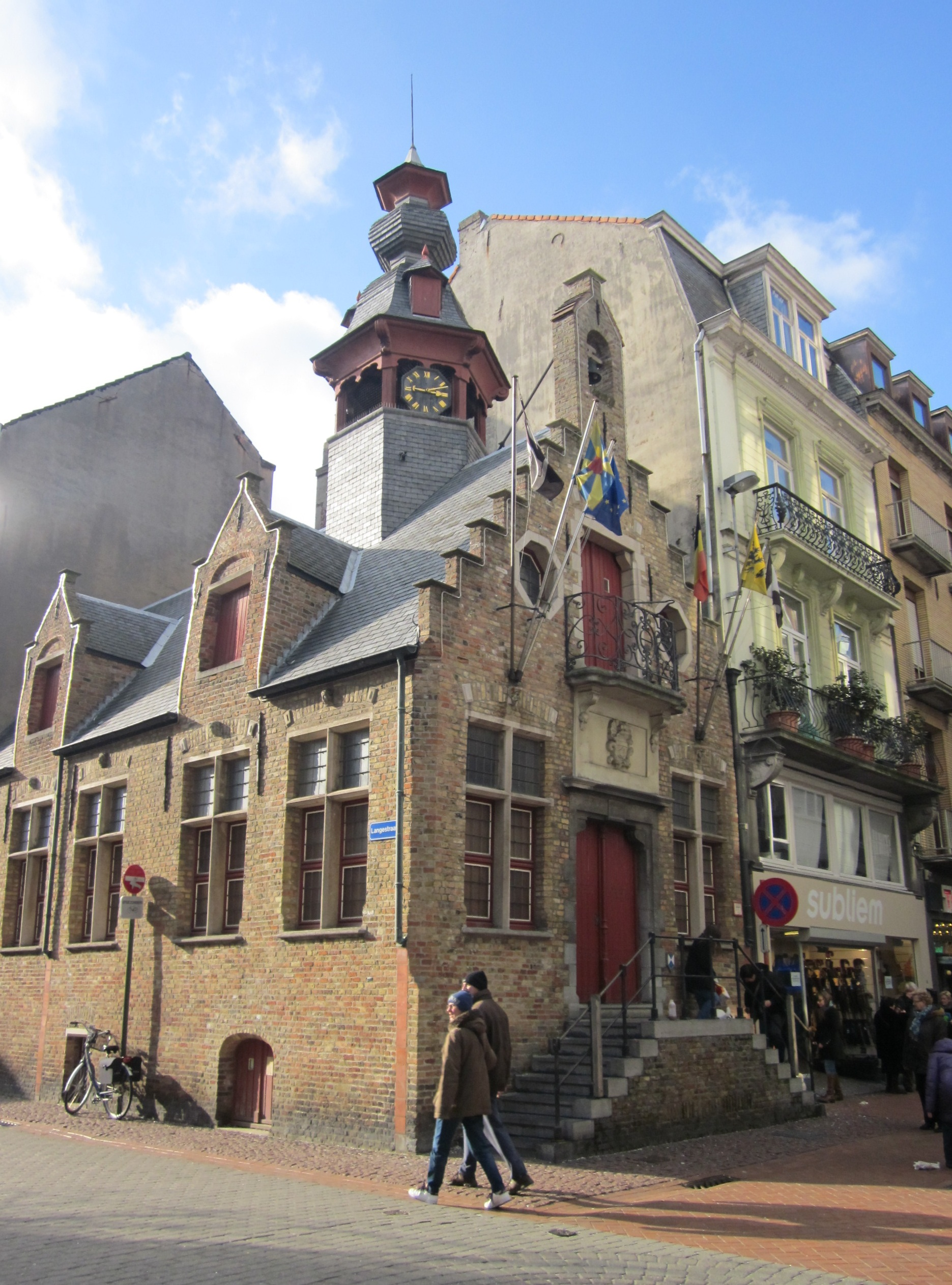 Former town hall of Blankenberge, Belgium